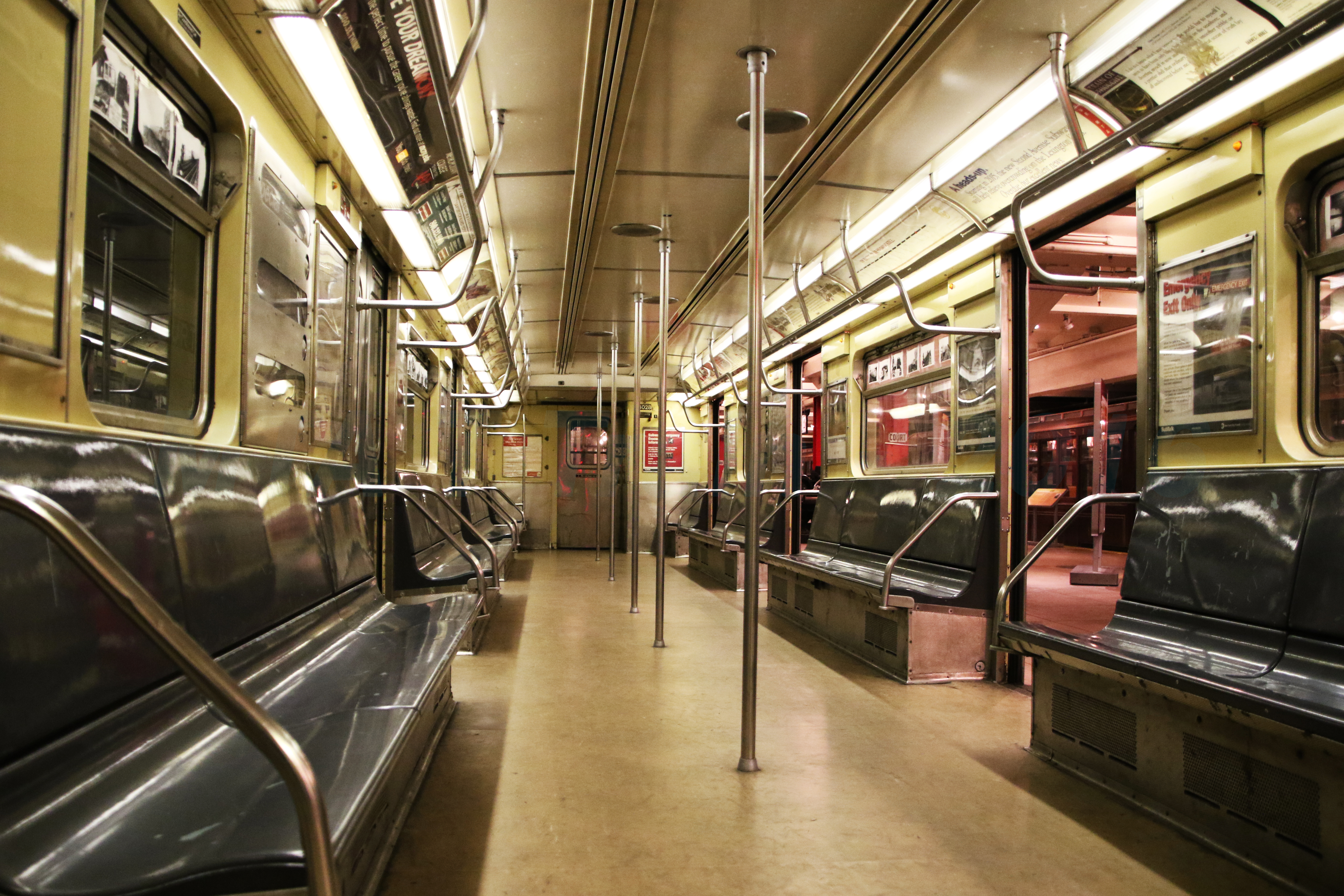 A view of the interior of MTA NYC Subway St. Louis Car R38 4028.